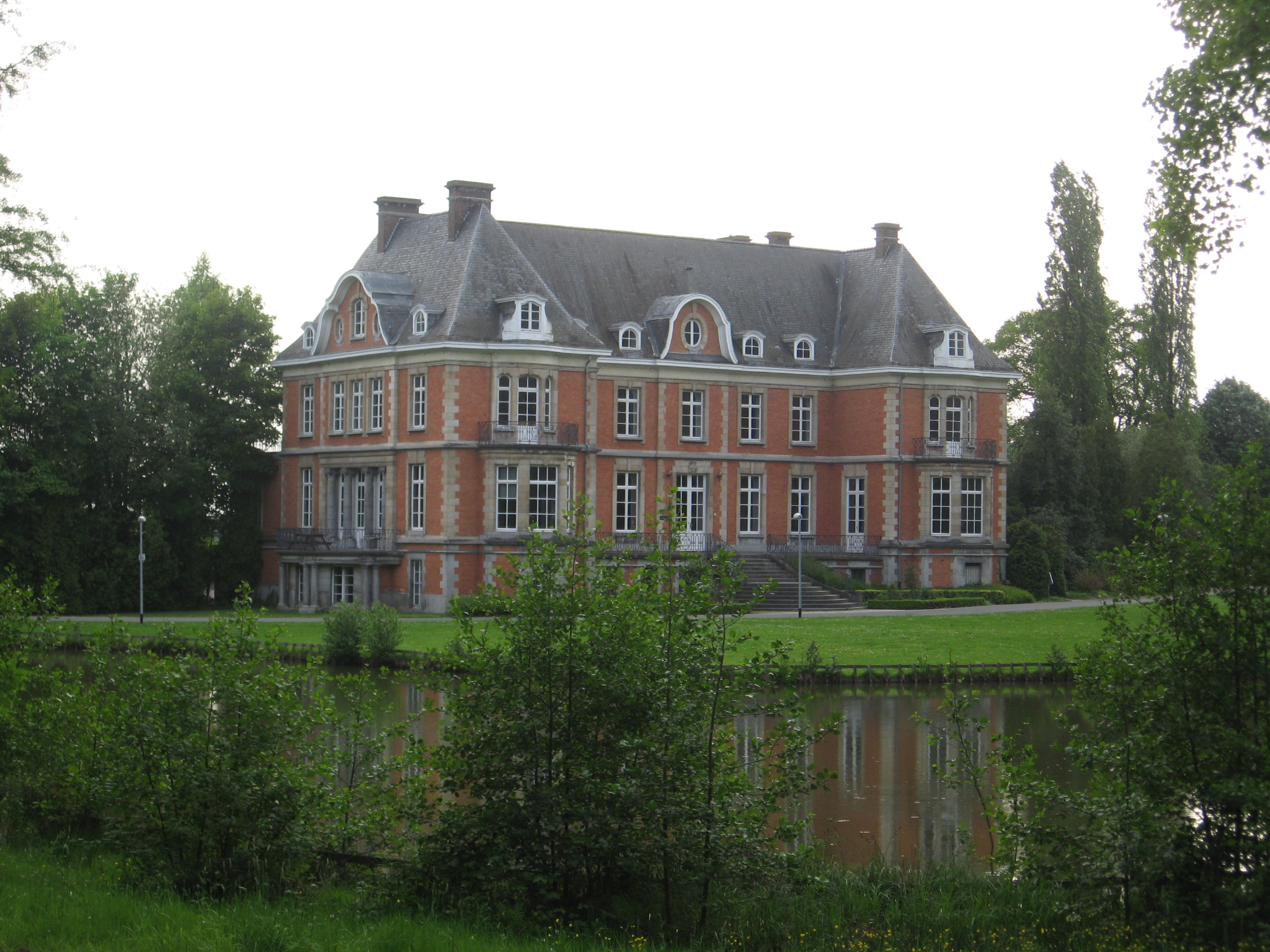 Castle de Maurissens in Pellenberg, Lubbeek, Flemish Brabant, Belgium